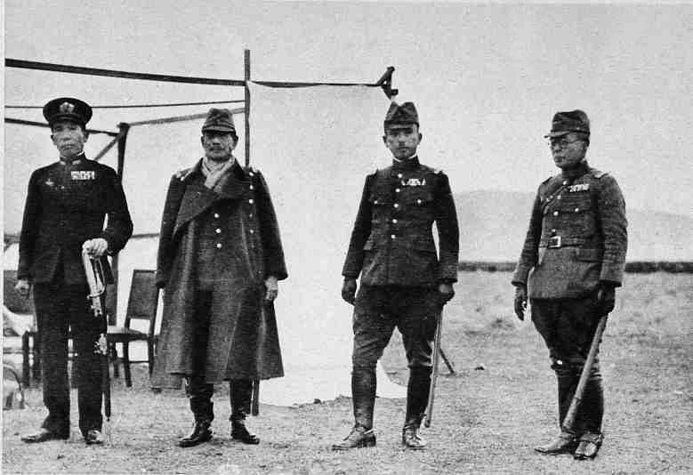 Four military leaders at the Memorial Ceremony for War Dead at Kukung Airfield: Kiyoshi Hasegawa (Commander-in-chief of 3rd Fleet), Iwane Matsui (Commander of the Central China Area Army), Asakanomiya (Commander of the Shanghai Expeditionary Army), Heisuke Yanagawa (Commander of 10th Army)